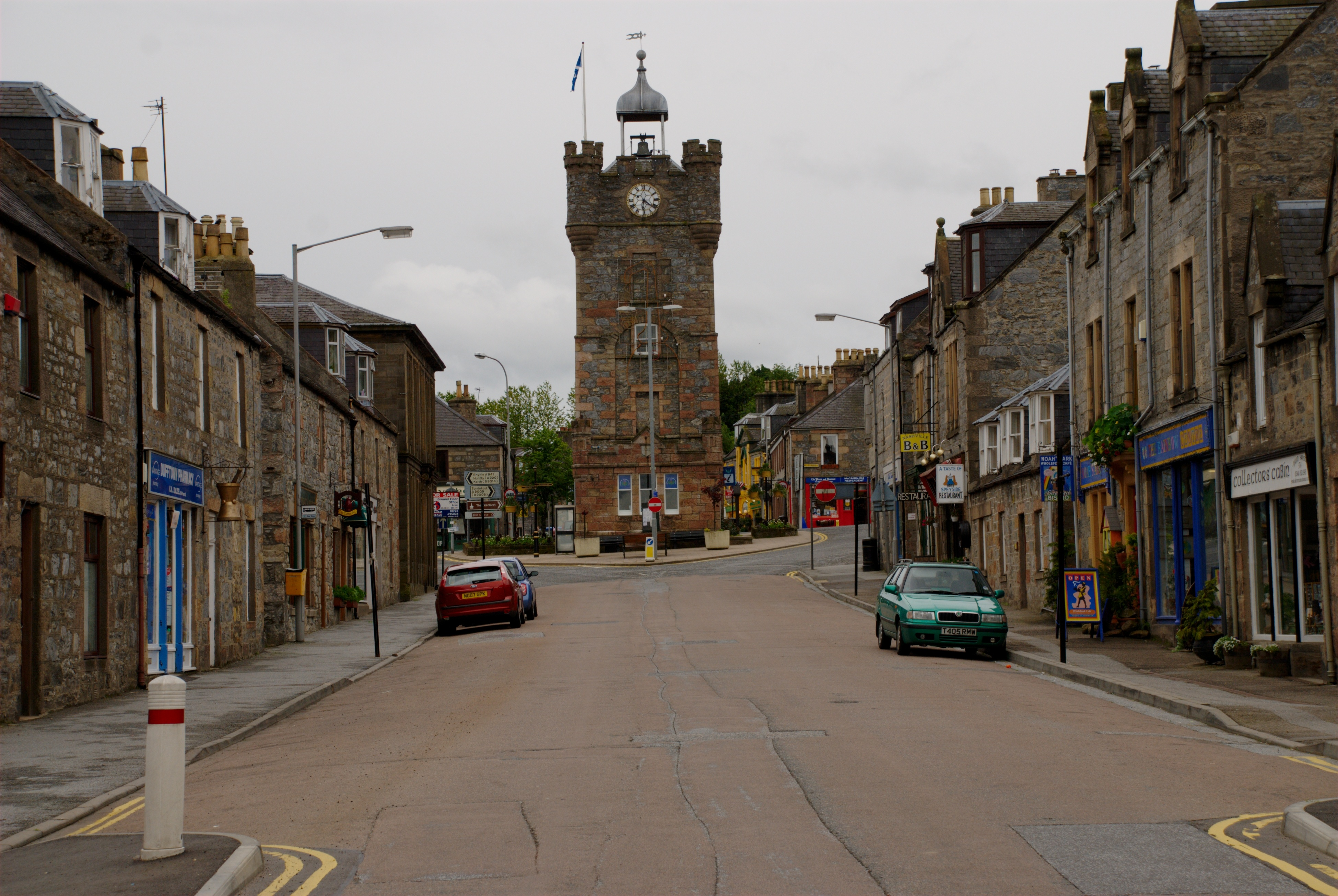 Dufftown clock tower from the north (at 21 minutes after 6 :-)